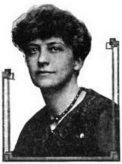 "The Woman Citizen" Seattle Justices of the Peace, by Anne Bigony Stewart Othila Gertrude Carroll Beals, Seattle, Washington